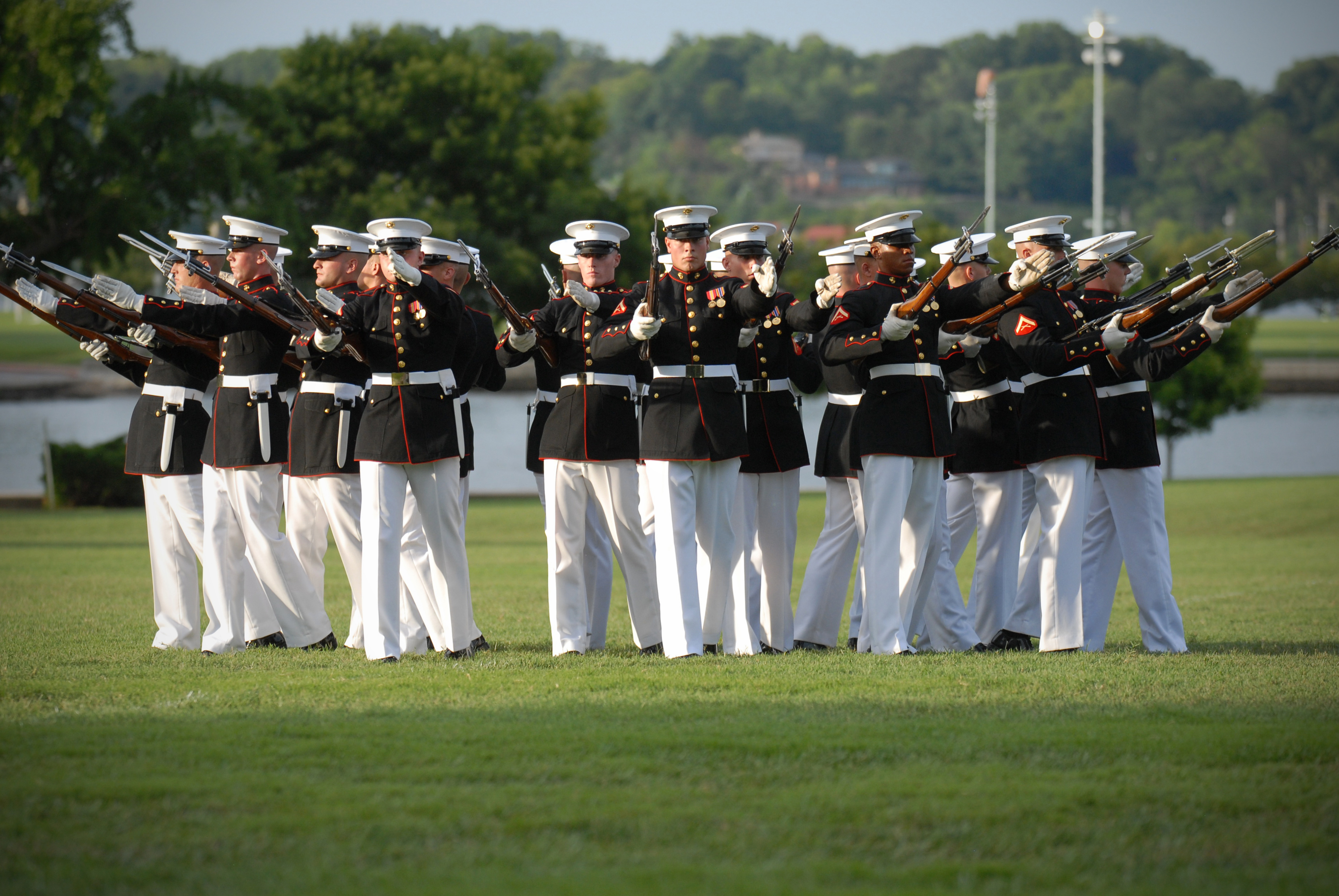 ANNAPOLIS, Md. (July 27, 2011) Members of the U.S. Marine Corps Silent Drill team perform at the U.S. Naval Academy for the Class of 2015. Members of the Silent Drill Platoon are hand picked to represent the Marine Corps. (U.S. Navy photo by Mass Communication Specialist 1st Class Chad Runge/Released)